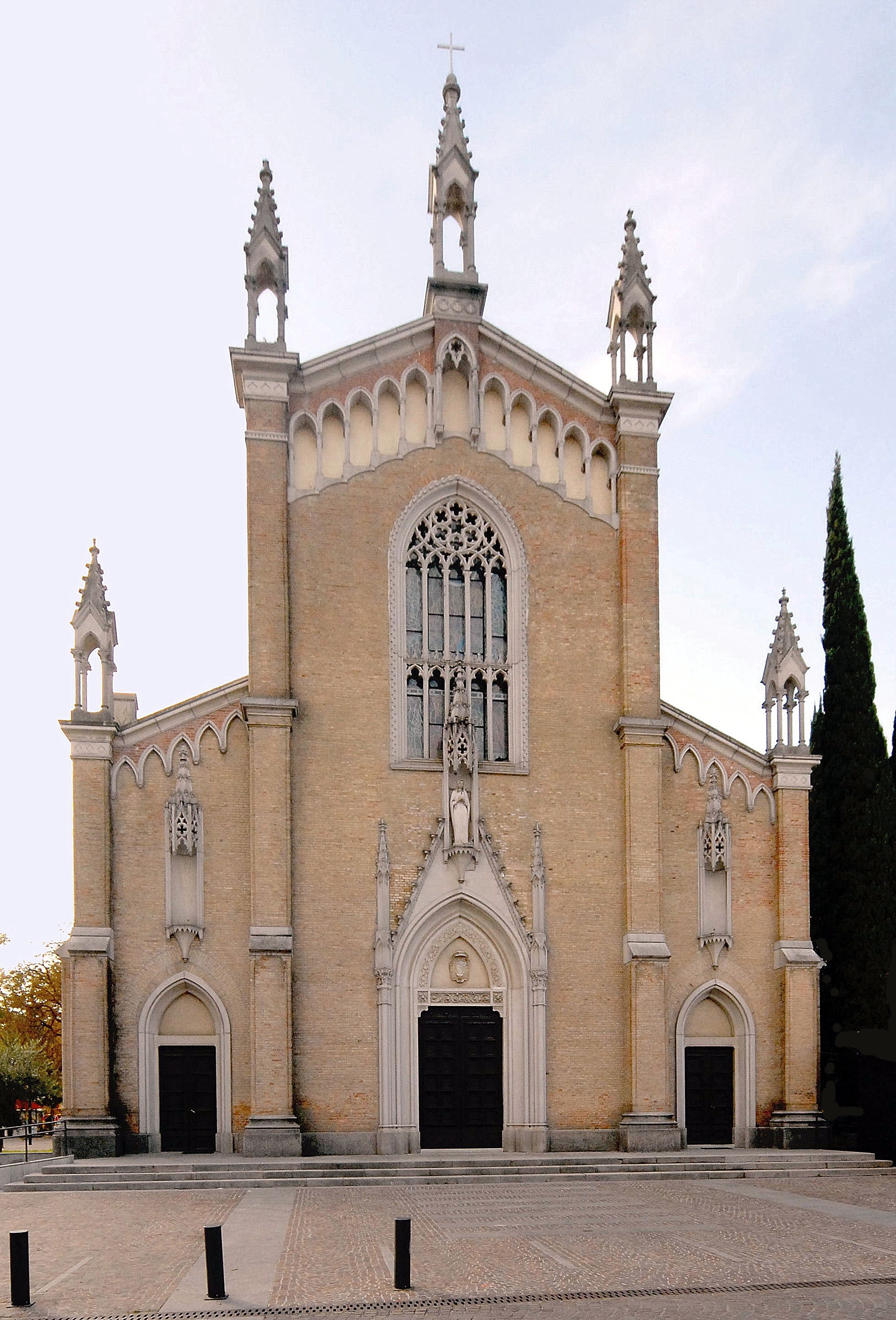 Cathedral at Rivignano, province of Udine, region Friuli Venezia-Giulia, Italy